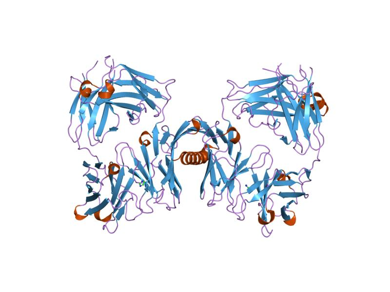 Cartoon representation of the molecular structure of protein registered with 1hez code.